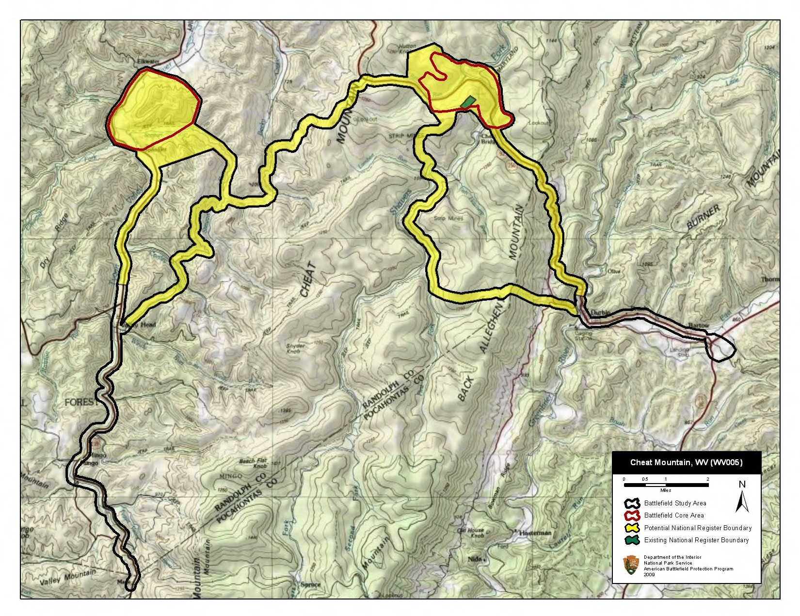 Map of battlefield core and study areas. The Study Area was revised to include the area of Confederate movements and a second Core Area at the site of the engagement near Camp Elkwater.